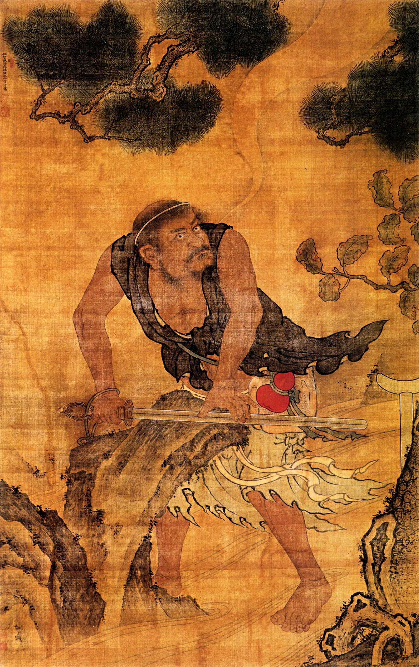 Sharpening a Sword, hanging scroll, color on silk, 170.7 x 111 cm. Located at the Palace Museum.